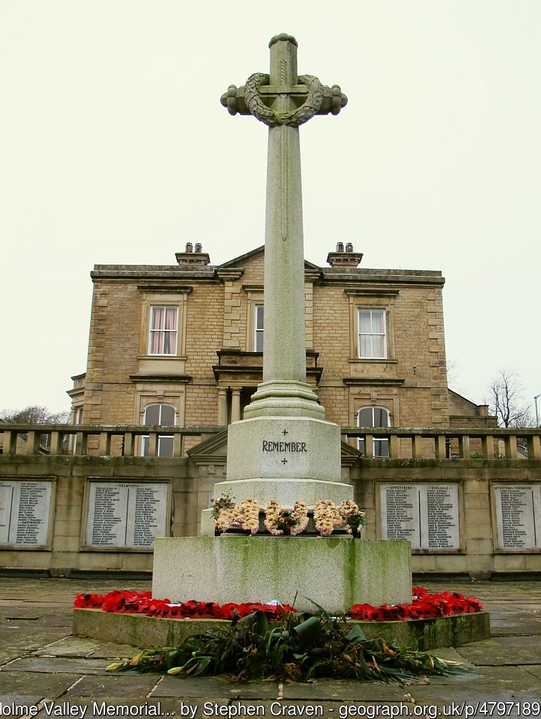 Holme Valley Memorial Hospital: the cross. Holme Valley Memorial Hospital: the cross The memorial cross was unveiled in July 1921 by Colonel HR Headlam. Conservation and repair work was carried out in 2007, funded by the War Memorials Trust. The cross and the memorial (list of names) behind it were listed grade 2 (list entry 1428327) in 2015 as part of World War 1 centenary commemorations. The Holme Valley Memorial Hospital, and the Holme, Holmfirth and Newmill Memorial Cross standing in the hospital grounds, were conceived together to commemmorate the men from Holmfirth District who fell in the First World War. The scheme was led by Dr RH Trotter and funded by public subscription. The original hospital building opened in 1919.